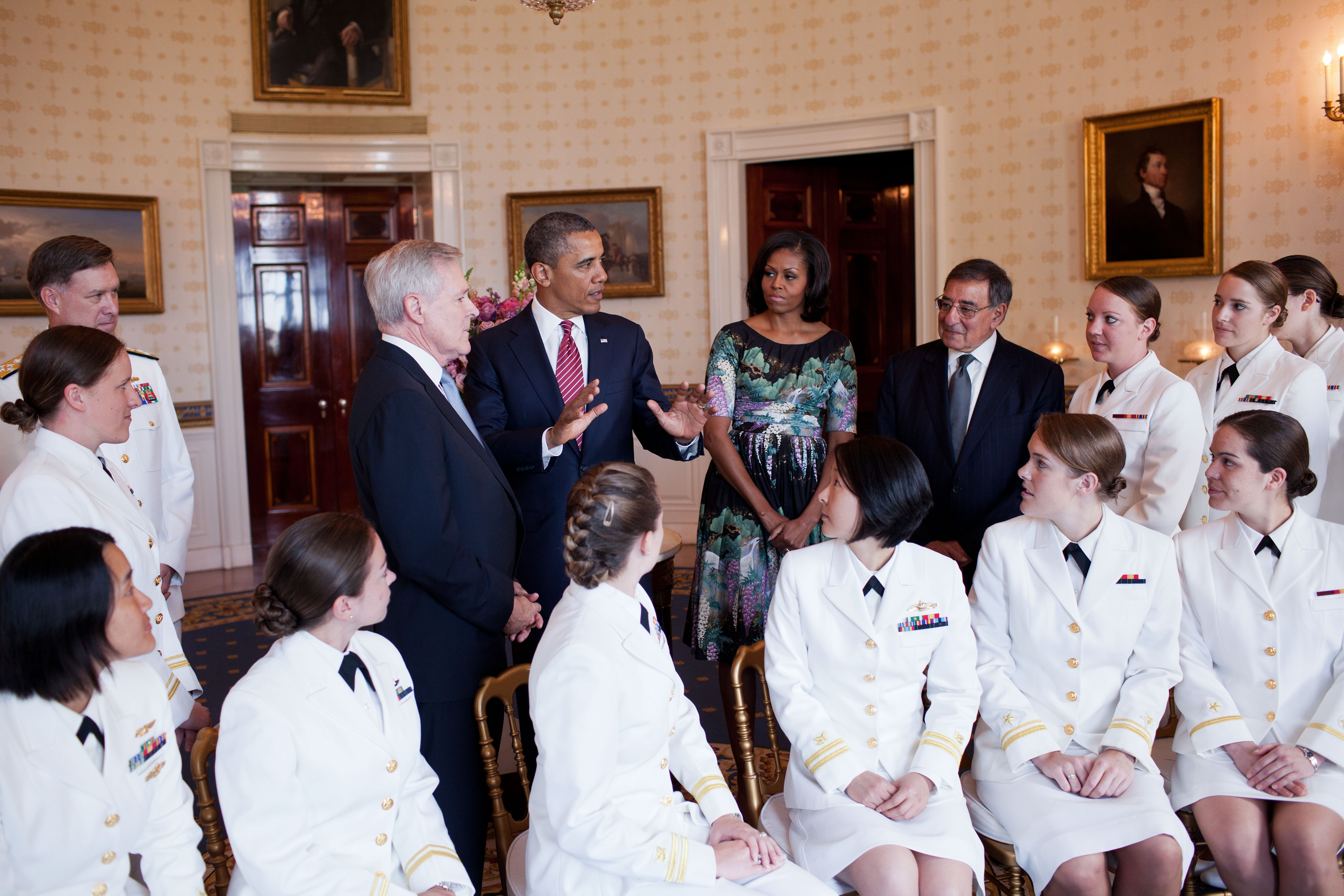 WASHINGTON (May 28, 2012) President Barack Obama and first lady Michelle Obama greet the U.S. Navy’s first contingent of women submariners in the Blue Room of the White House. The 24 women serve on ballistic and guided-missile submarines throughout the Navy. Also attending are Adm. Mark Ferguson, Vice Chief of Naval Operations (VCNO), left, Secretary of the Navy (SECNAV) Ray Mabus and Secretary of Defense (SECDEF) Leon Panetta. (White House Photo by Pete Souza/Released) 120528-O-ZZ999-001 Join the conversation navylive.dodlive.mil